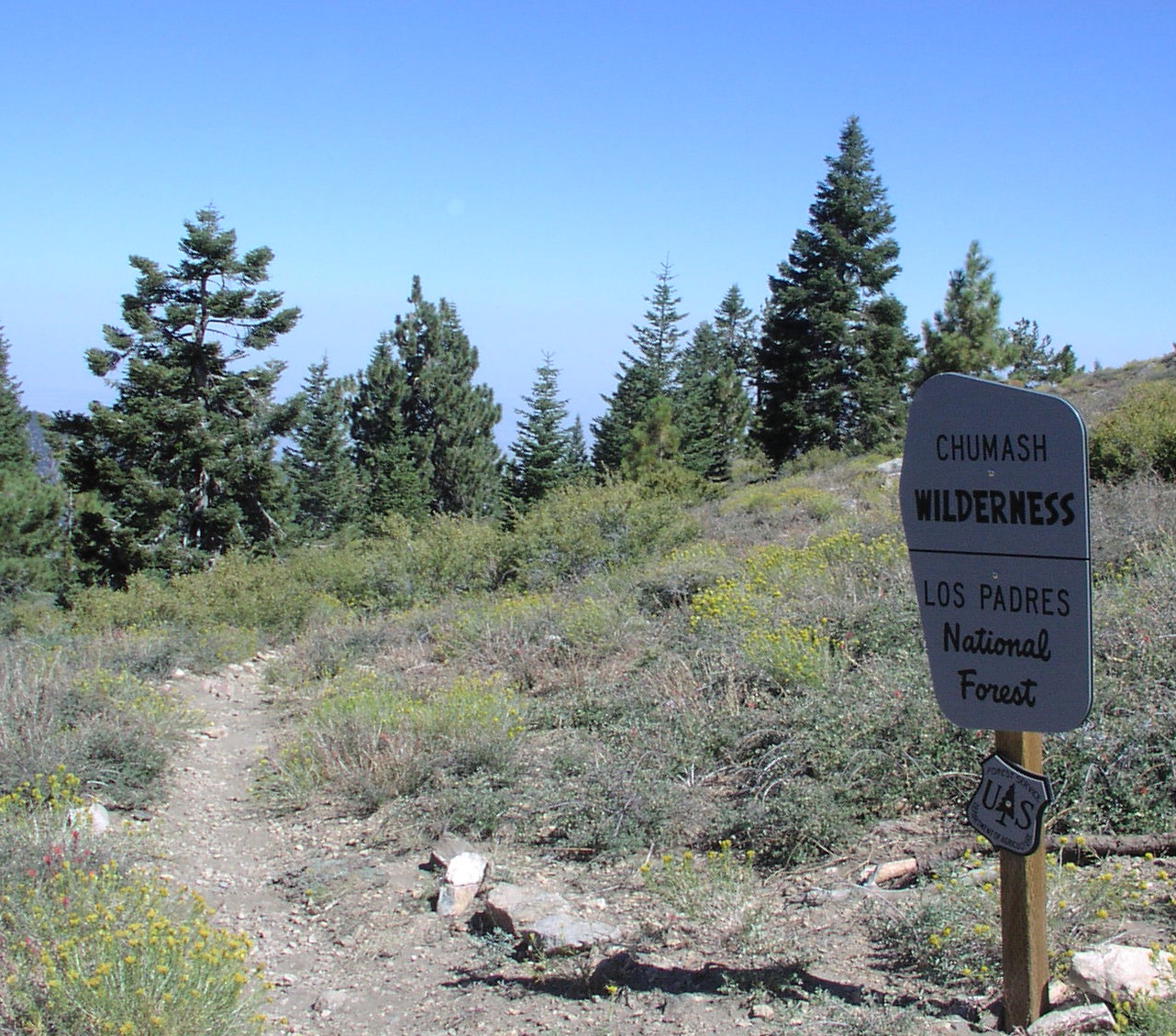 Trailhead into the Chumash Wilderness in the southeastern Los Padres National Forest, eastern Ventura County, California. The view is to the north from just west of the summit of Mount Pinos. The trail goes downhill, then up to Sawmill Mountain in the San Emigdio Mountains